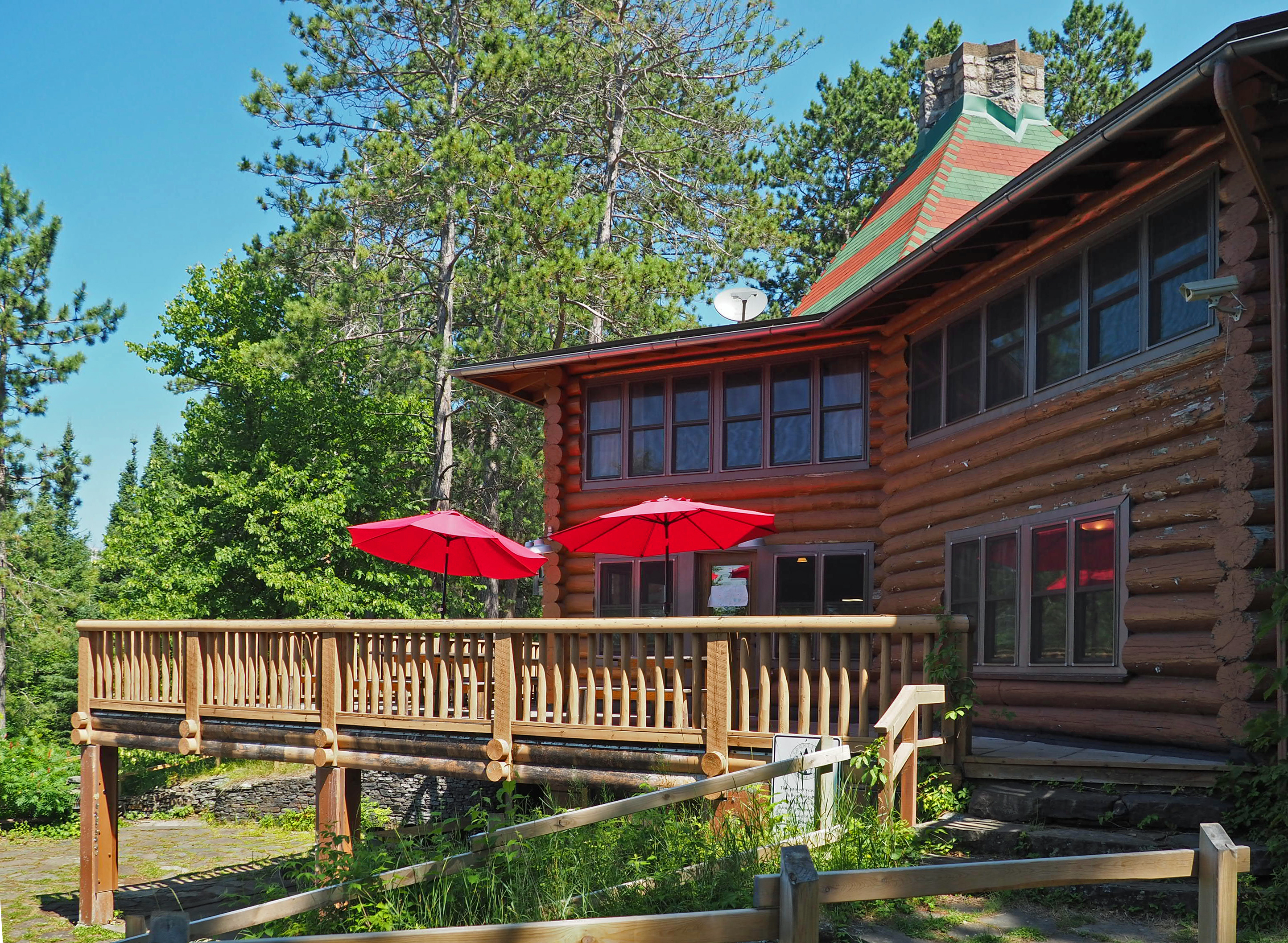 Lodge, Camp Esquagama (formerly the St. Louis County 4-H Club Camp), 100 Pine Ln, Biwabik Township, Minnesota, USA. Viewed from the south. Taken on private property with permission.